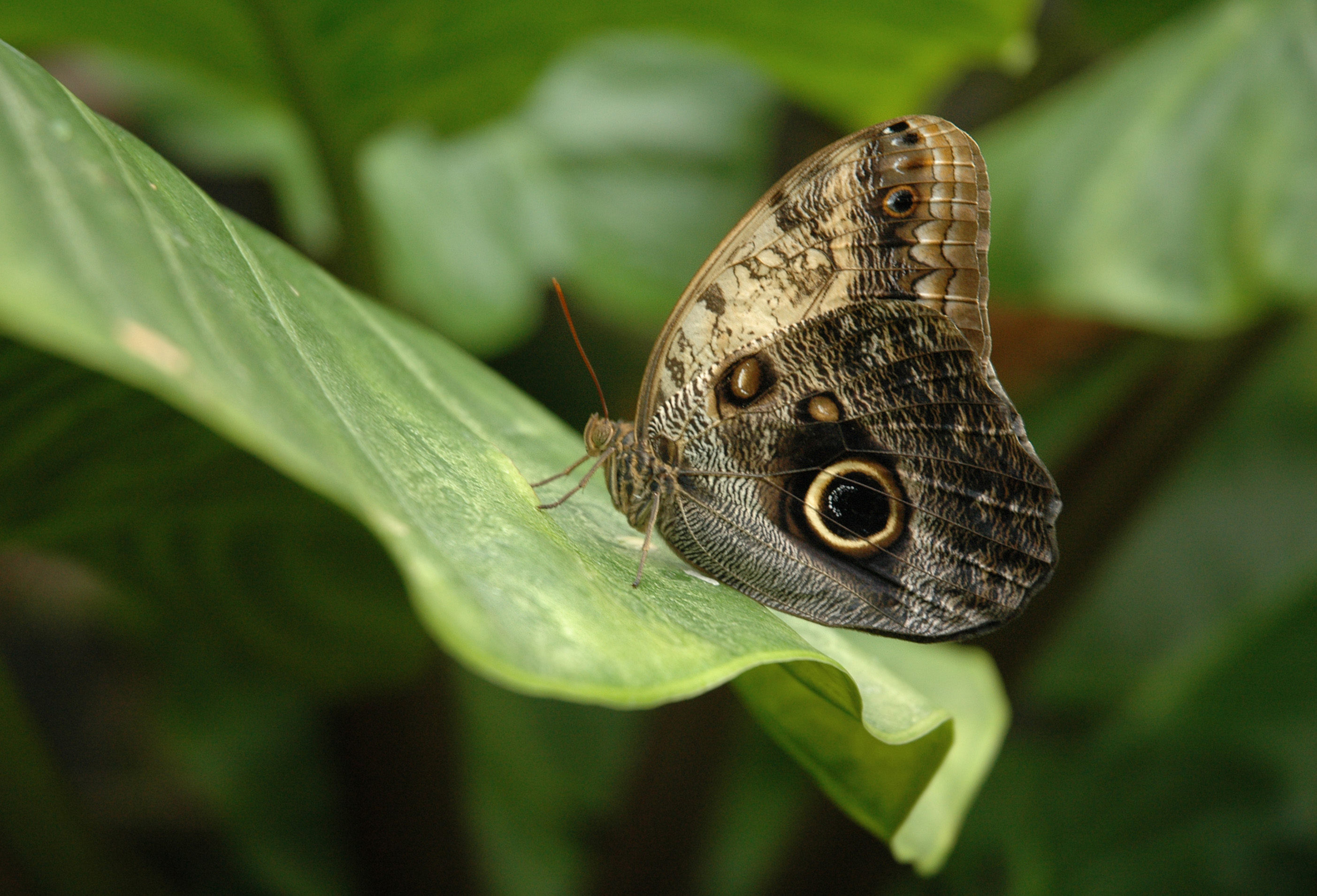 Owl Butterfly : Caligo_Memnon